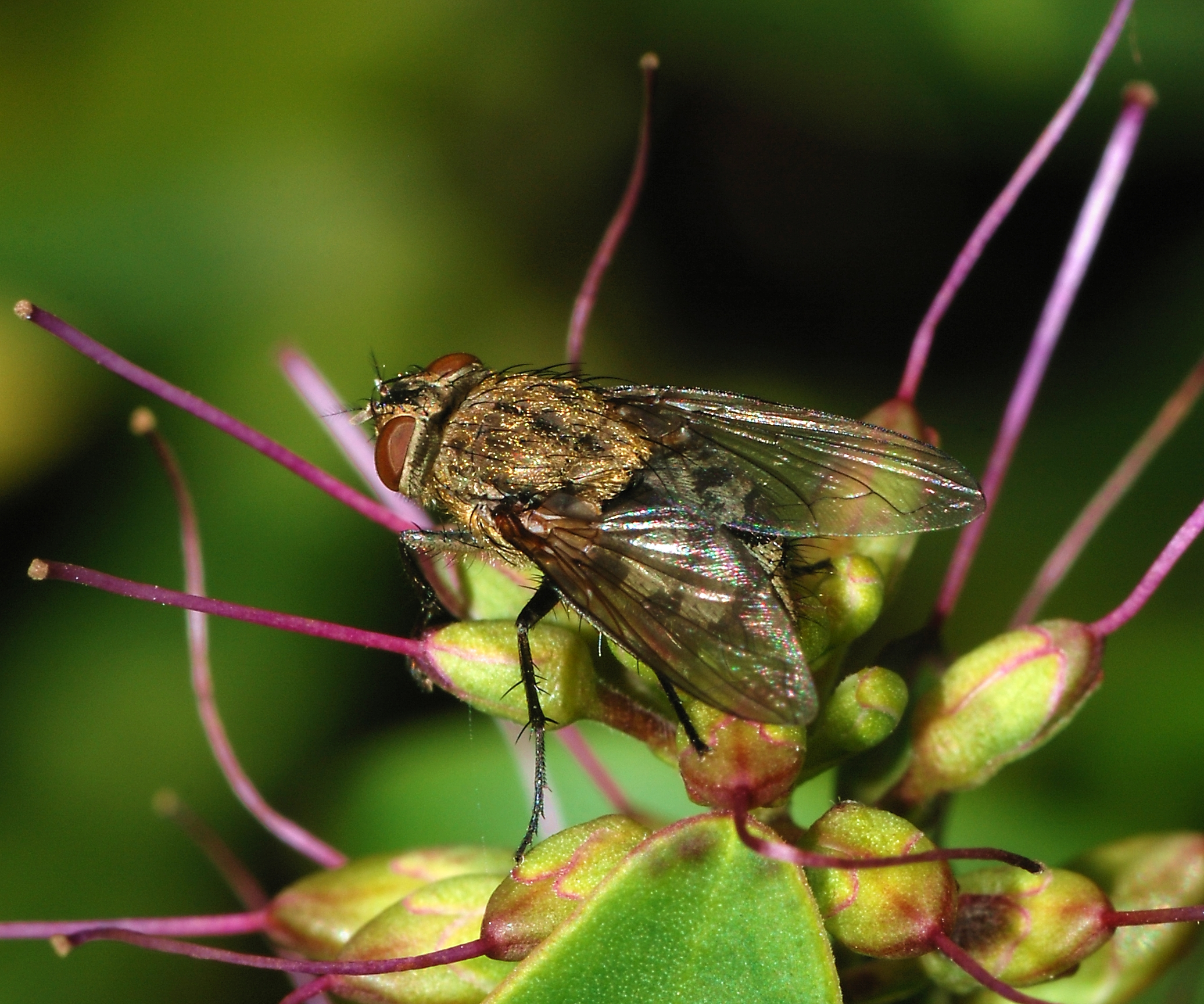 Cluster-fly (Pollenia rudis)